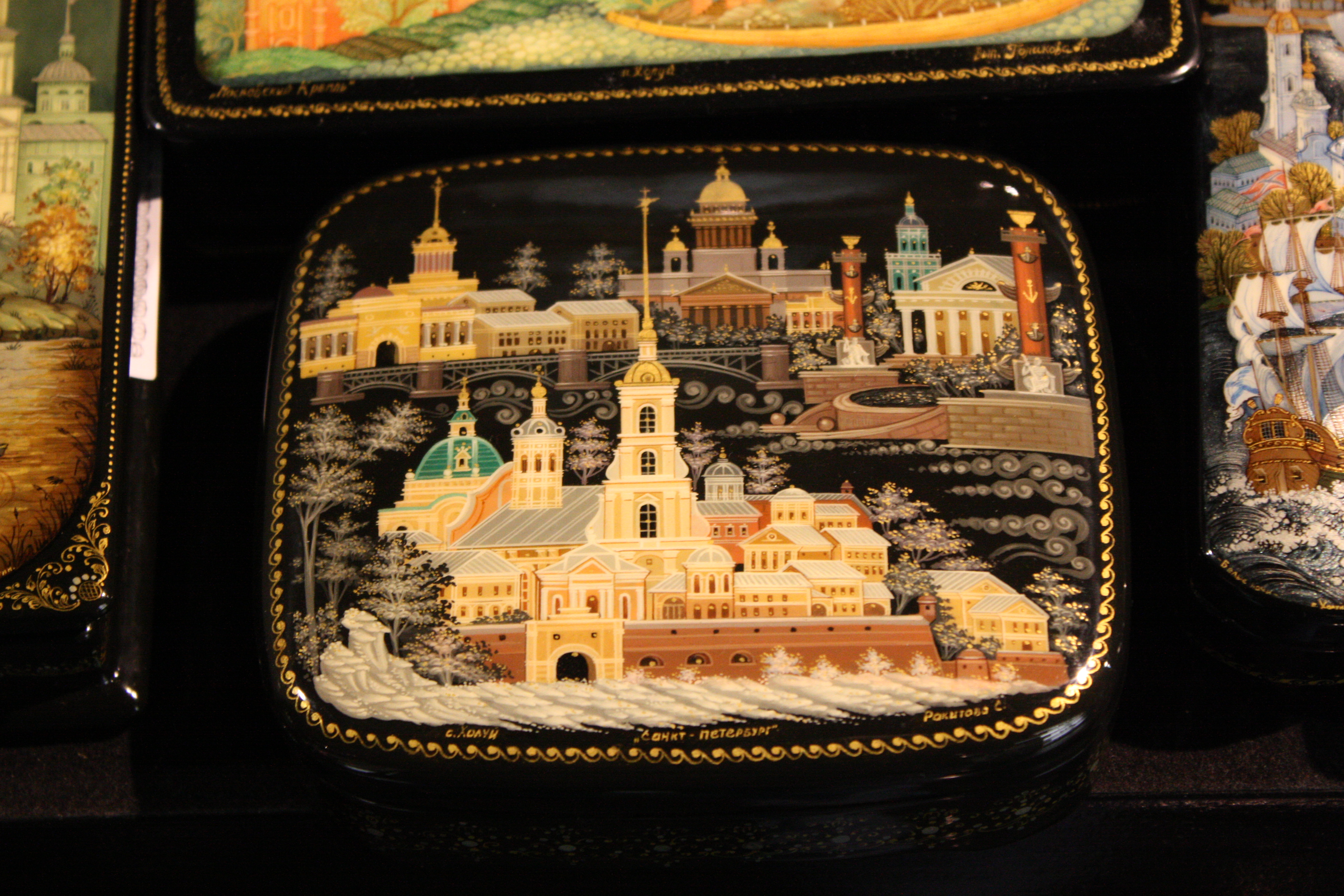 Russian lacquer art, russische Lackminiaturen, St. Petersburg, 2009, magazin Berjoska, for foreign tourists; Kholuy miniature